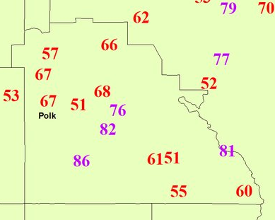 Preliminary top observed wind gusts (miles per hour; 1 mph = 1.6 km/h) during Hurricane Irma in Polk County, Florida. This file was made by the National Weather Service's Ruskin (Tampa Bay) office a few hours after Irma's passage and these preliminary measurements are subject to review, calibration of equipment, and other error corrections. Numbers in purple are hurricane force (74+ mph). Numbers in red are tropical storm force (39-73 mph).